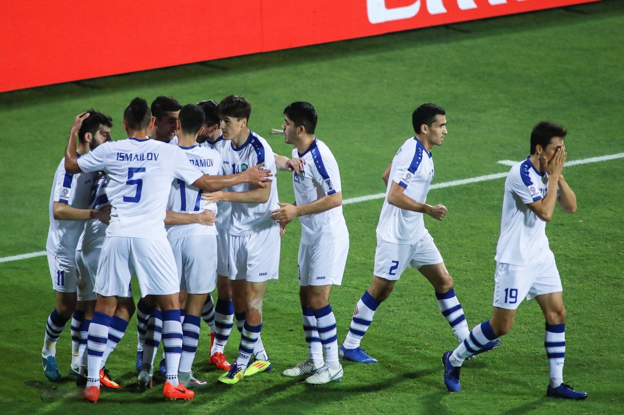 Turkmenistan & Uzbekistan Group F match, 2019 AFC Asian Cup